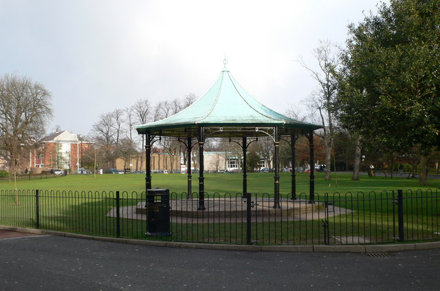 Bandstand, Llwyn Isaf Green Llwyn Isaf Green is outside the Guildhall, Wrexham.